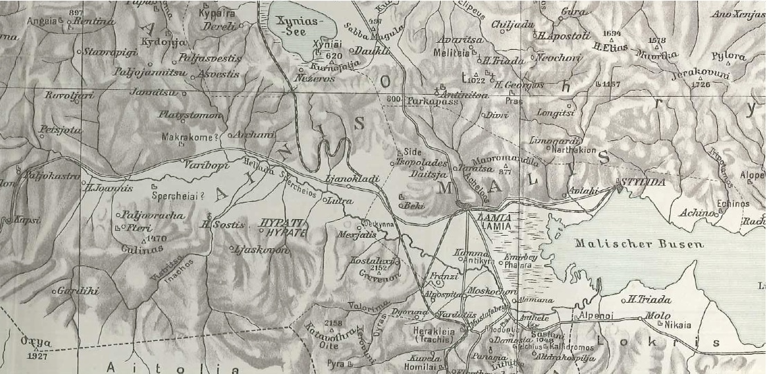 The valley of Spercheios, from Das hellenische Thessalien by Friedrich Stählin (1924).